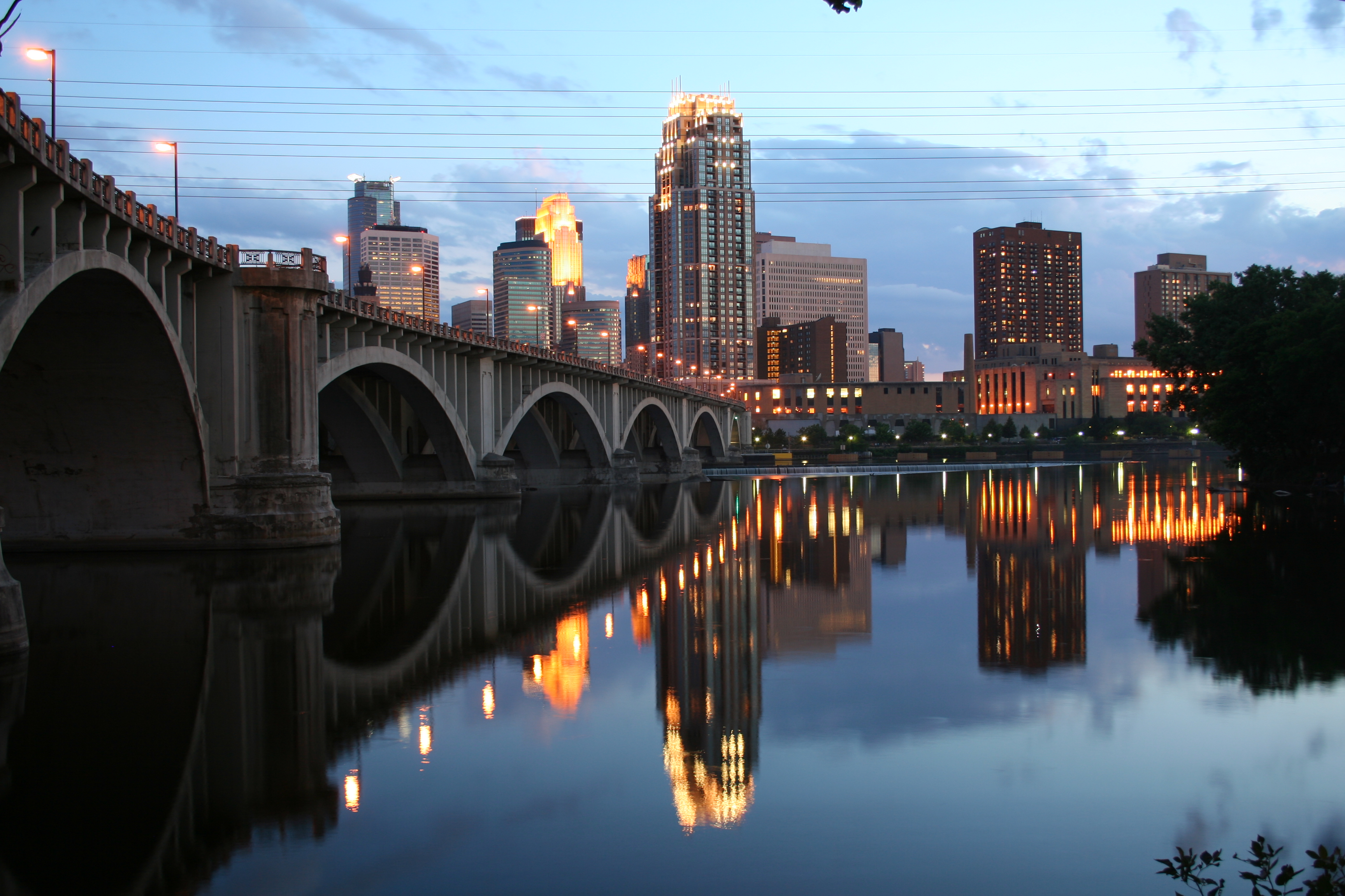 This is me having fun with the tripod along the Mississippi River. The power lines are killing me, but it's still a lovely vista.